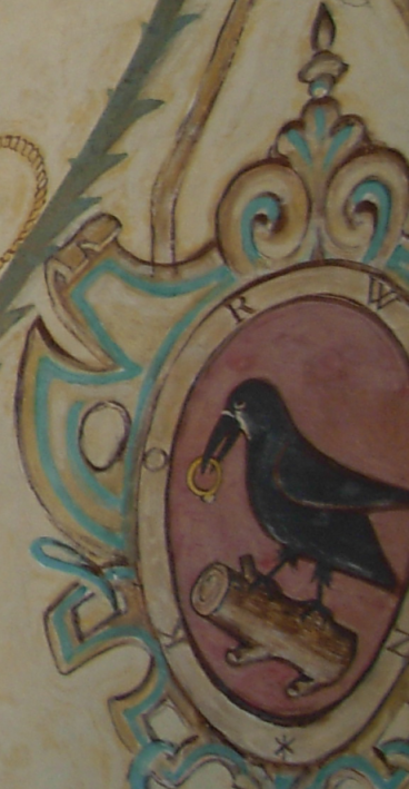 Korwin coat of arms in Baranow-Sandomierski castle. Detail of Image:Baranów Sandomierski - castle 04.JPG full resolution, by User:Piotrus and tagged with the same “self2.GFDL.cc-by-sa-2.5,2.0,1.0” license.